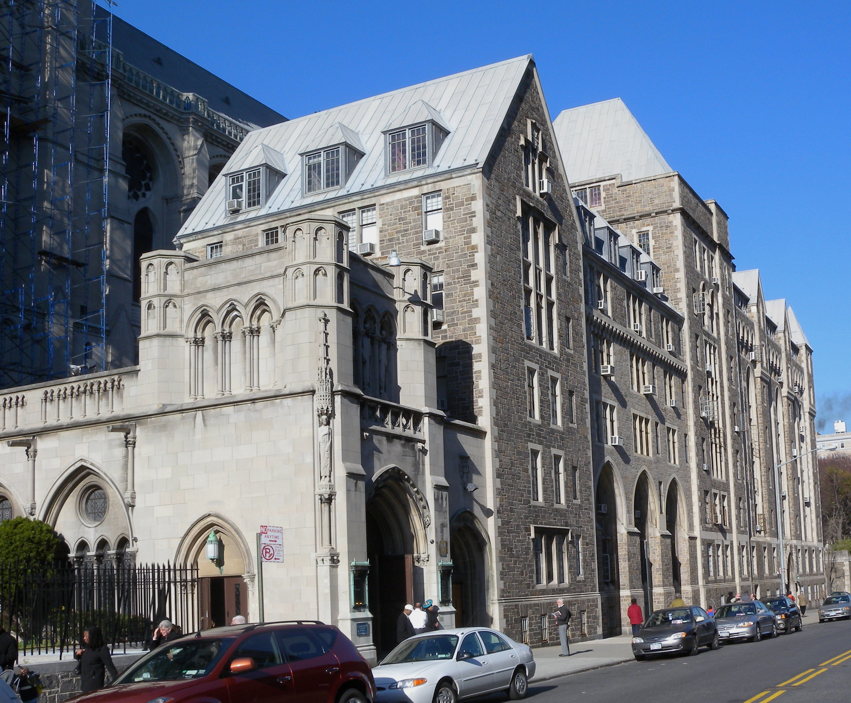 Looking north across Claremont Avenue at east side of Riverside Church on a sunny midday.